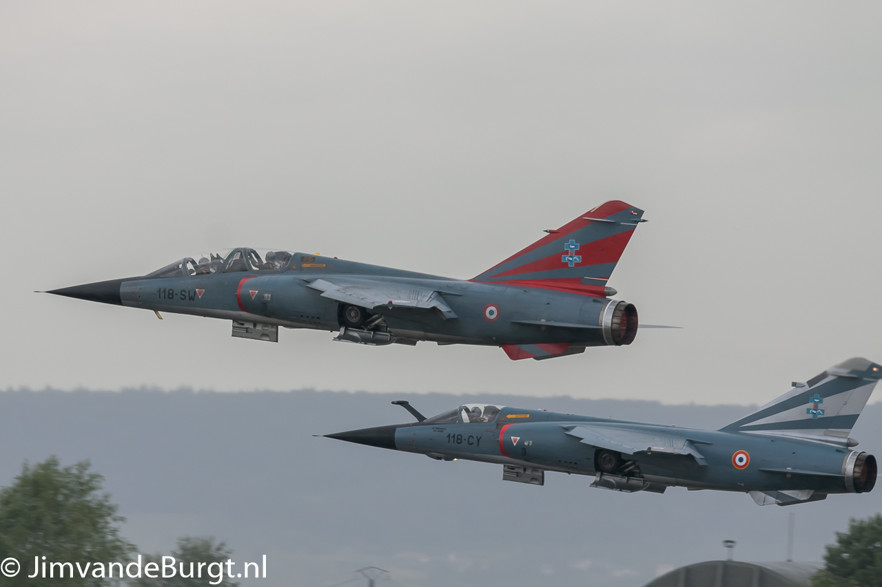 2014 Meeting de l'air, Base aérienne 133 Nancy-Ochey, France. Mirage F1CR et F1B, Escadron de reconnaissance 2/33 Savoie